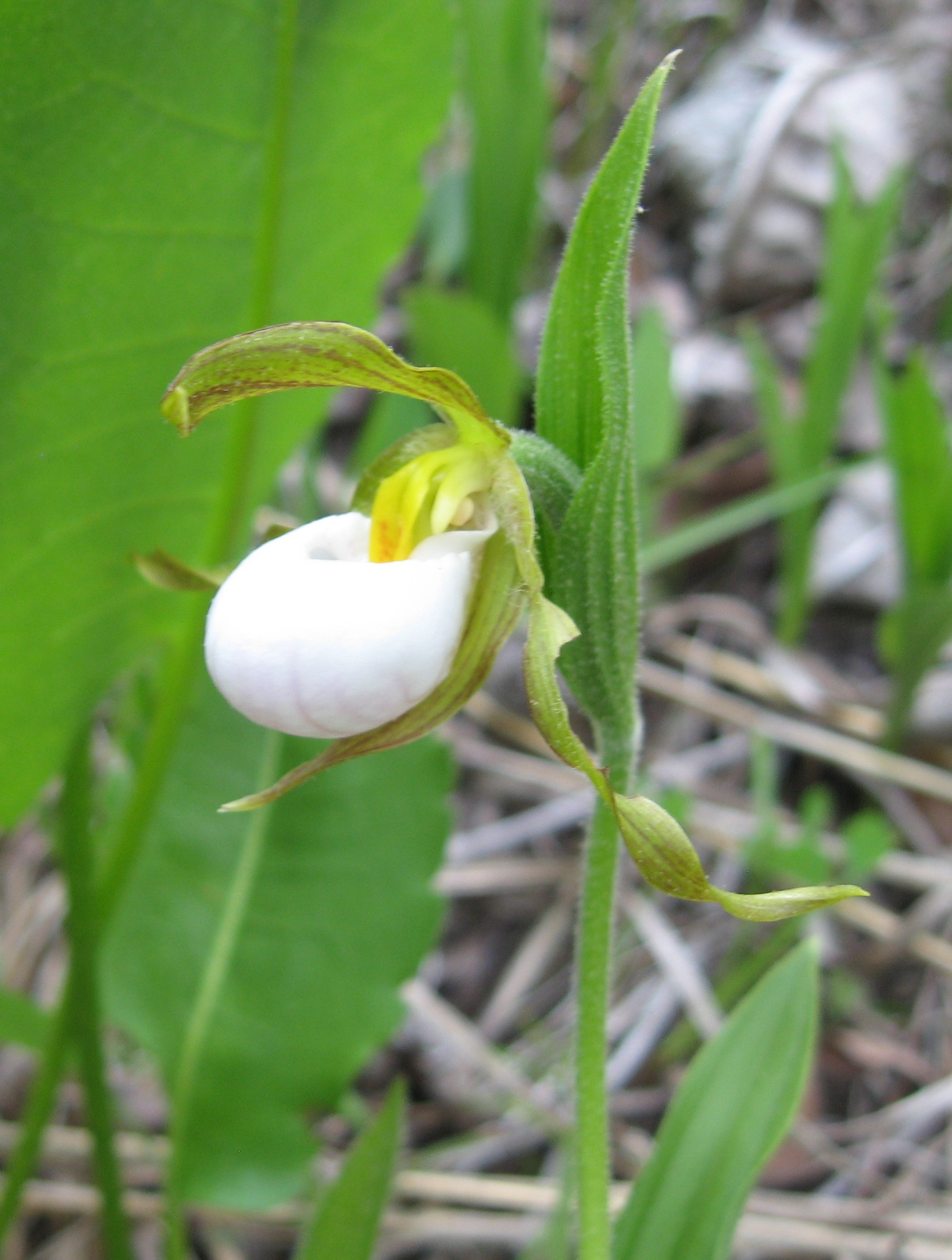 Cypripedium candidum. A hill prairie in Lewis County, Kentucky.